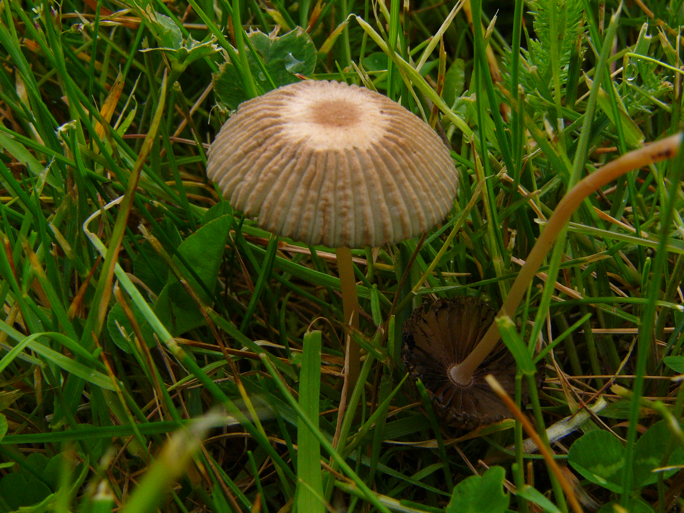 The making of this document was supported by the Community-Budget of Wikimedia Germany.